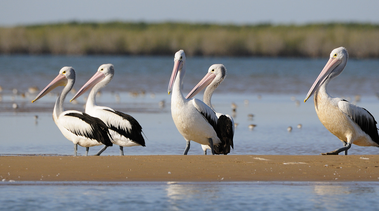 Australian Pelicans (Pelecanus conspicillatus) at the mouth of the McArthur River in the Northern Territory